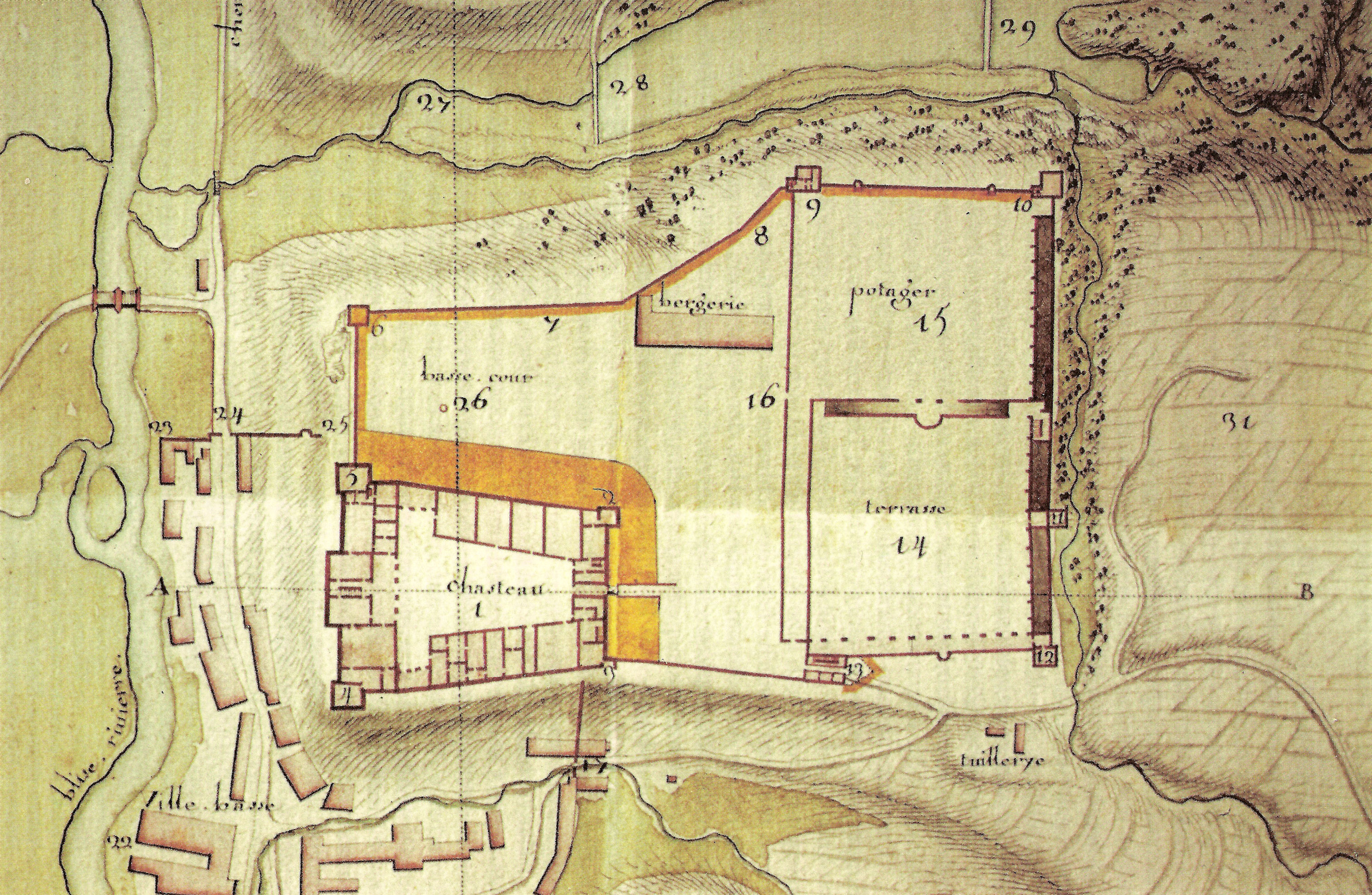 Plan of the castle complex